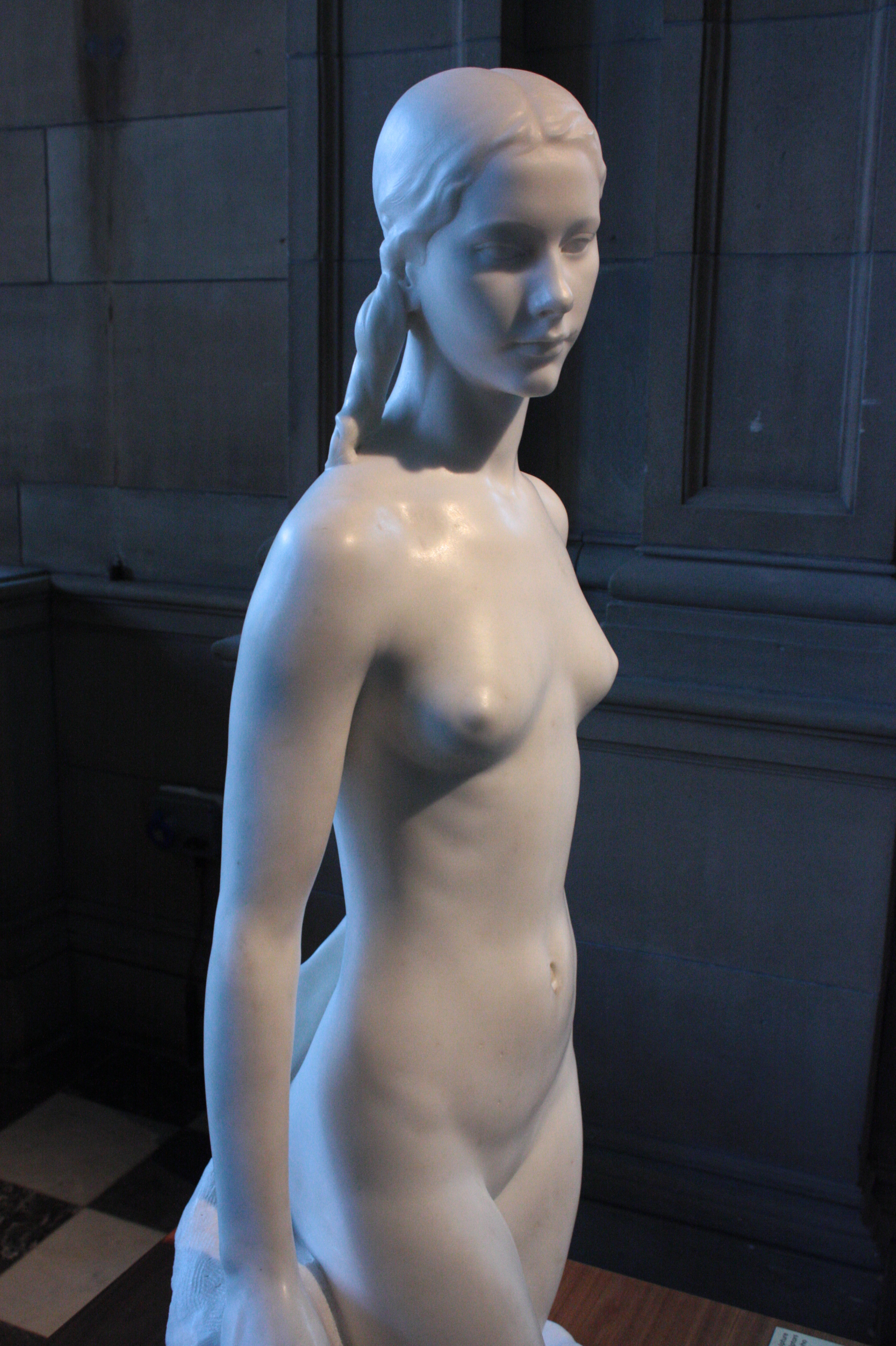 Syrinx by William McMillan, 1925, Kelvingrove Art Gallery and Museum